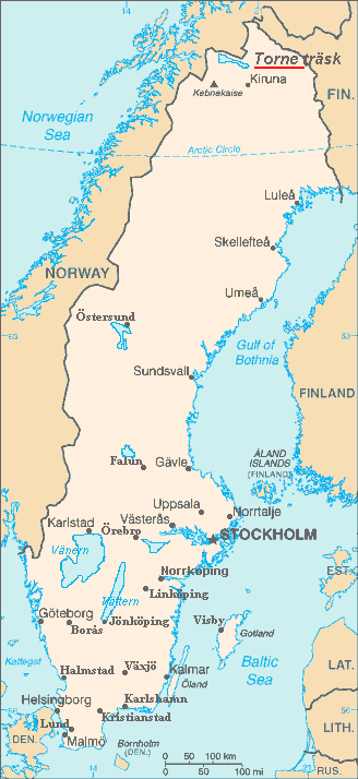 atetmpt to place Torne träsk in Sweden